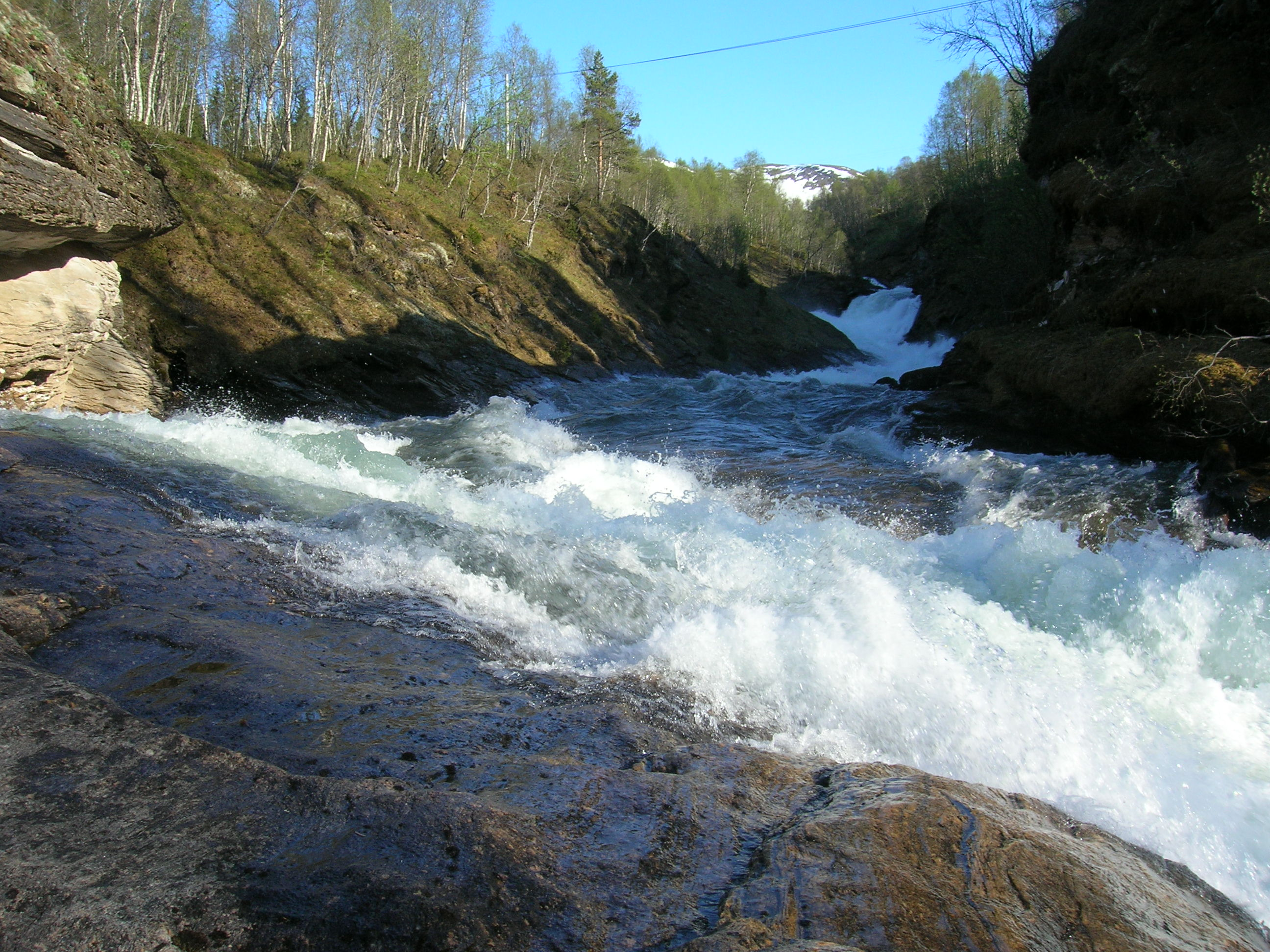 The outlet of the River Messingåga into Ranelva, Storvoll in Dunderlandsdal, Rana municipality in Nordland county, Norway, Photo June 2, 2008 with a Nikon Coolpix 5600 5,1 Megapixel camera.